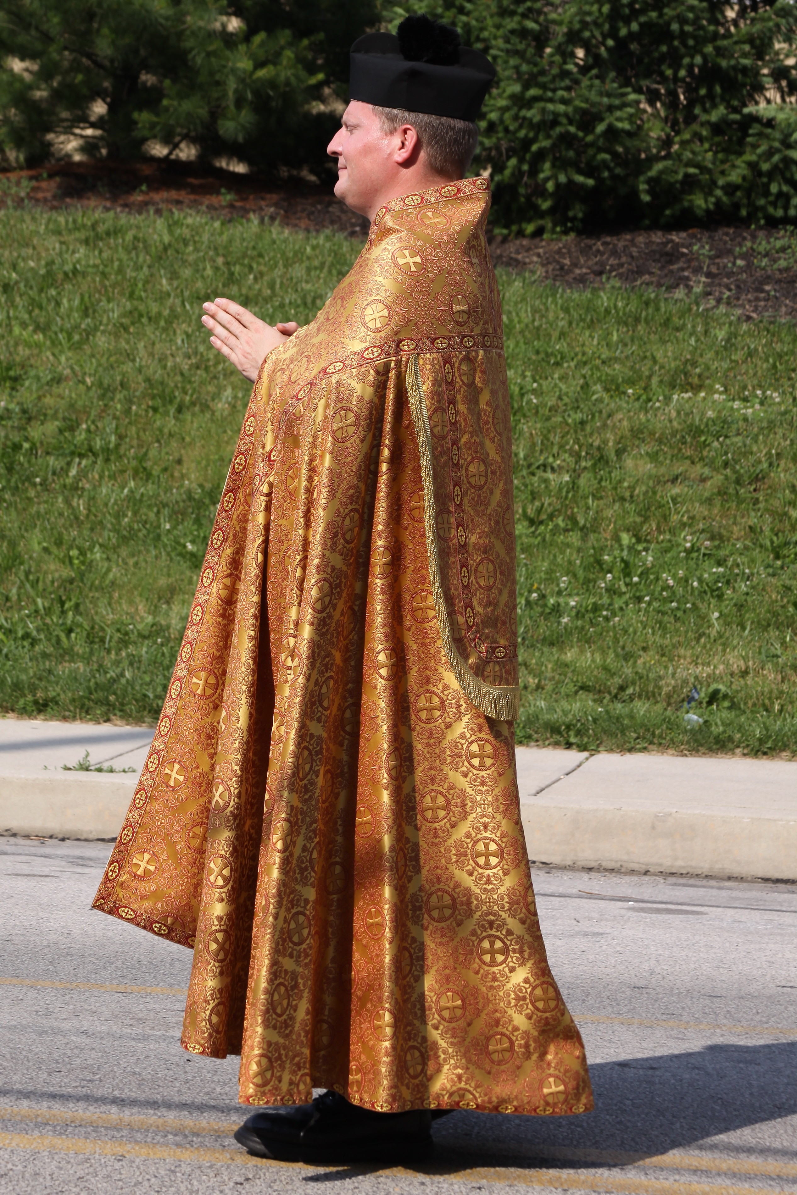 A priest from the St. Jude's Church (Philadelphia) wearing a cope.